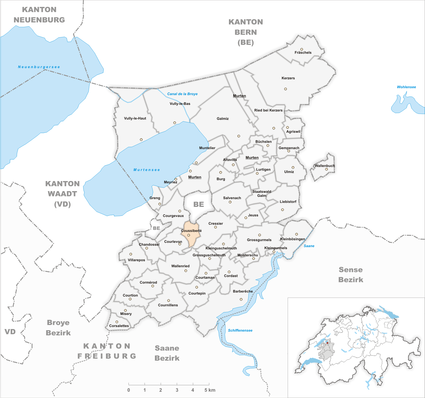 Municipality Coussiberlé Artist: Tschubby